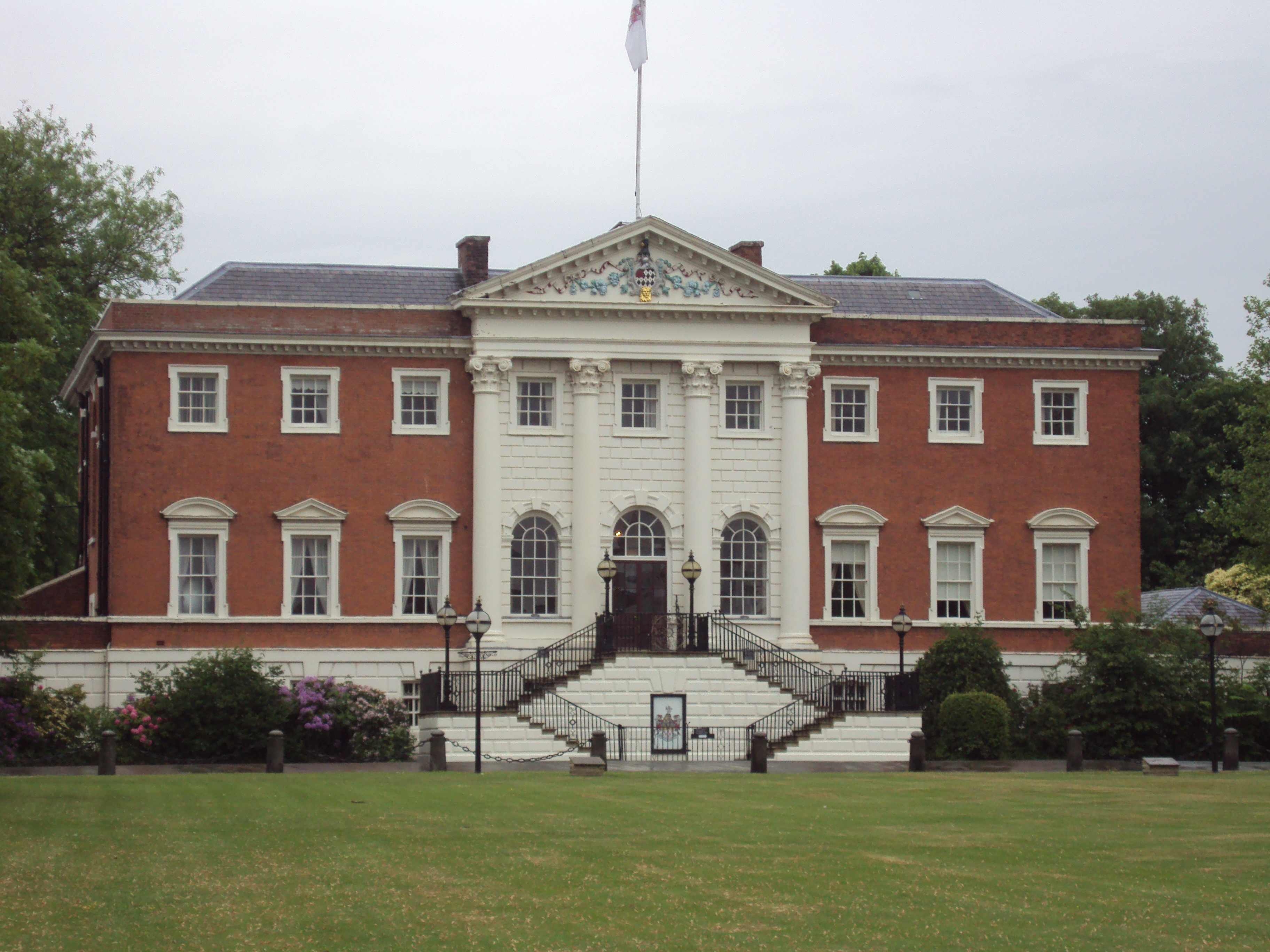 Warrington Town Hall, Cheshire, England.